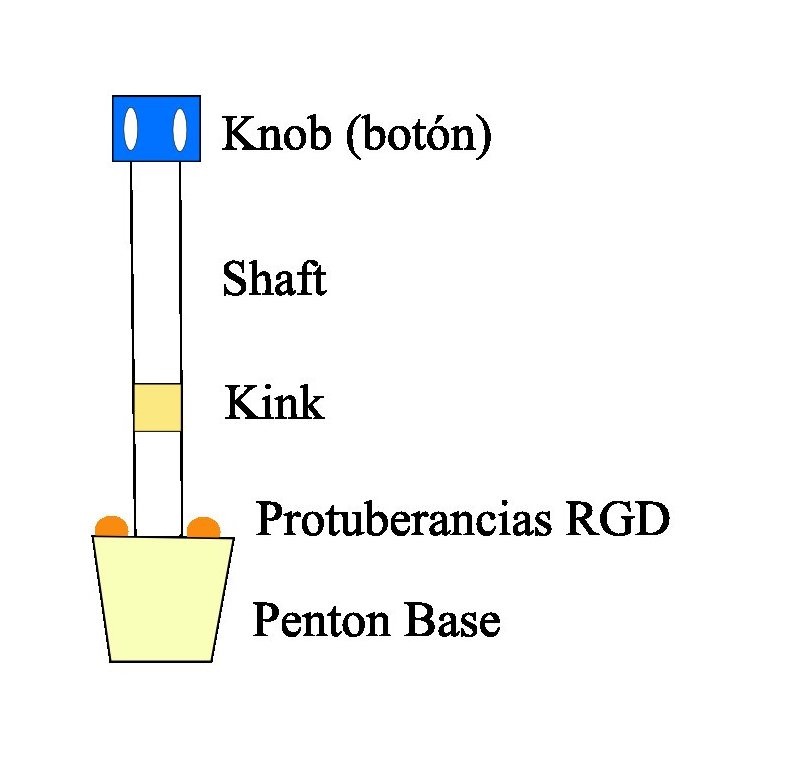 Estructura fibra del adenovirus.